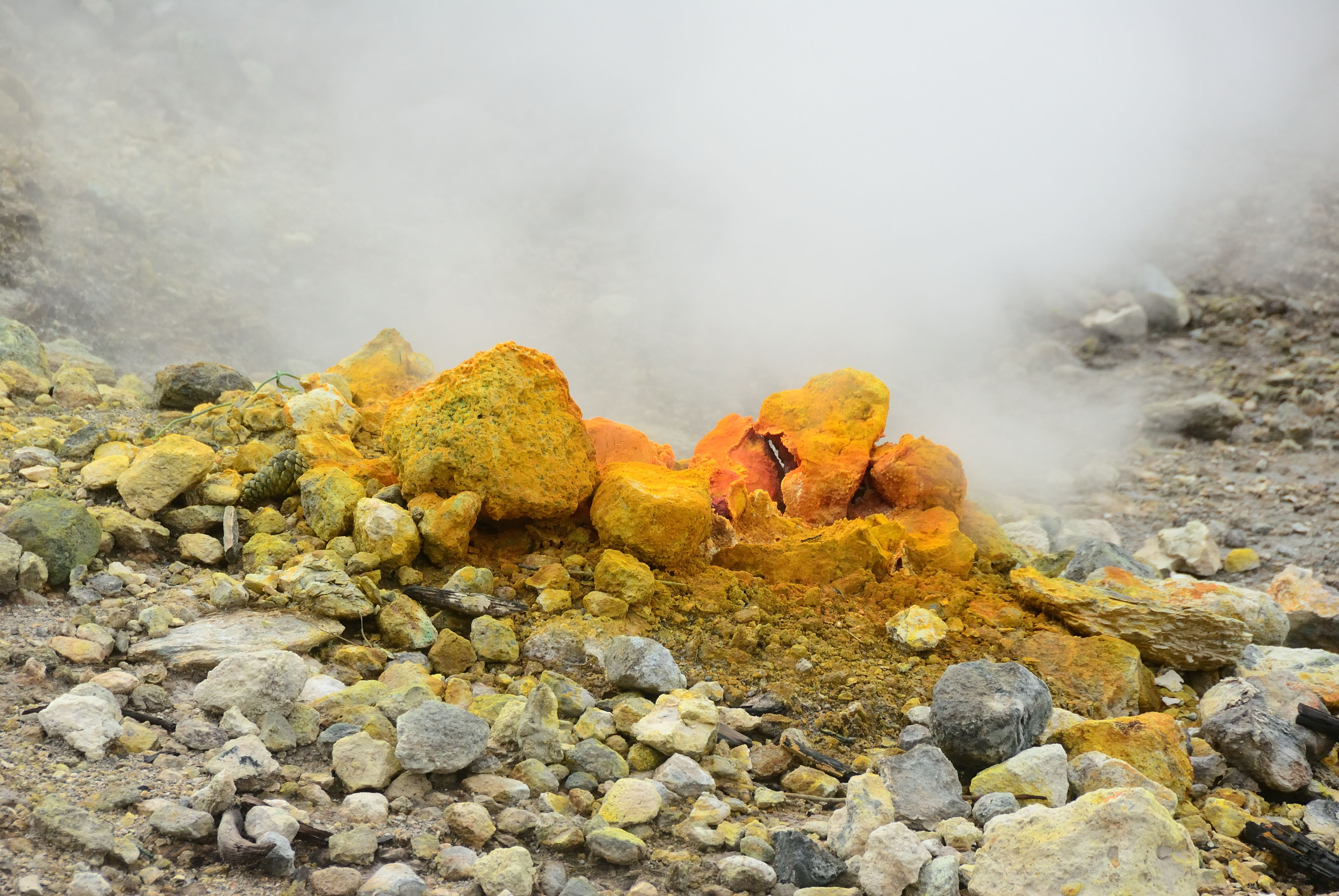 Field trip to Campi Flegrei